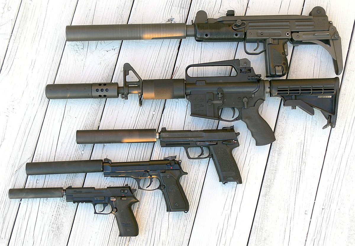 From top: IMI Uzi with Companion Shooting Supplies (Vector Arms) Model 2000, 9mm. RRA AR-15 with Advanced Armament Corporation (AAC) Omni, .223. HK USP Tactical with AAC Evolution-45. Beretta 92FS with AAC Evolution-9. SIG Mosquito with AAC Pilot, .22. Own photograph of own firearms.